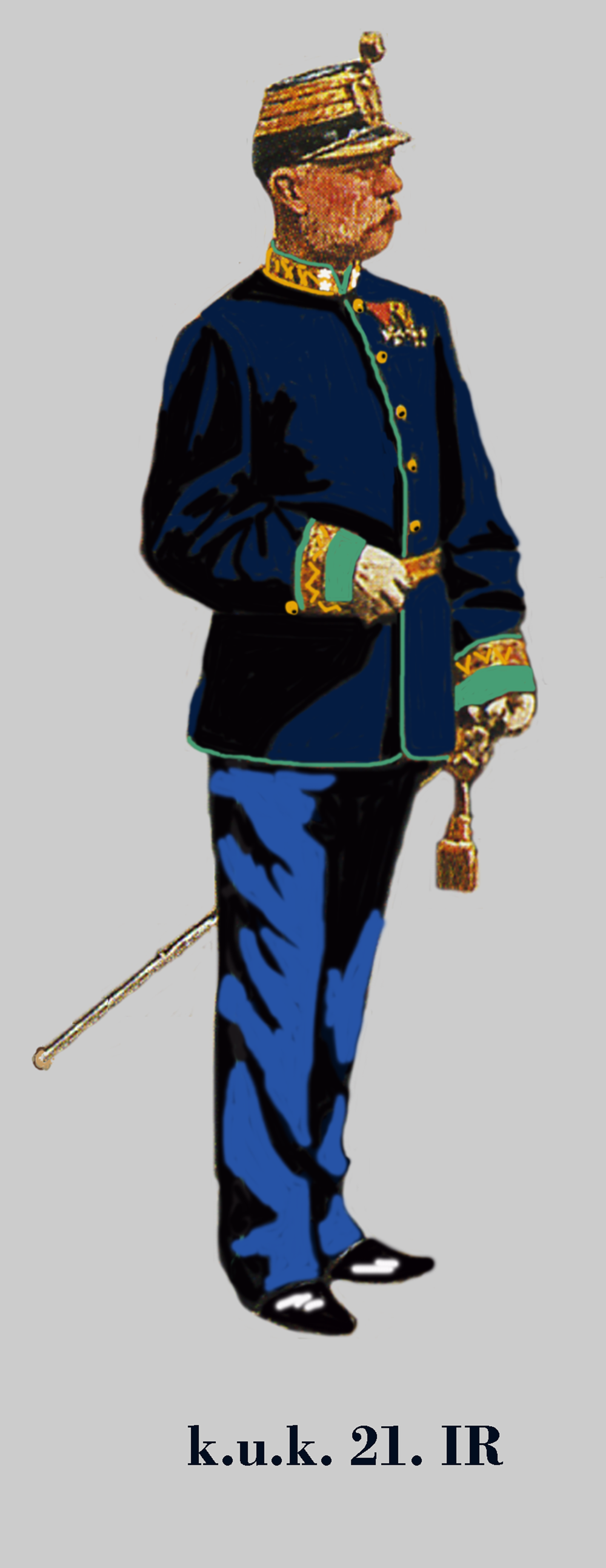 Lieutenant-Colonel of the Austria-Hungarian (k.u.k.). 21st german Infantry Regiment in Parade dress. 1914